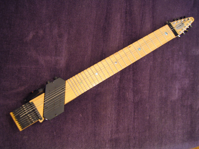 Summary A 10 string Chapman Stick. This Stick is made of maple and includes both the Stickup passive stereo pickup module and the Roland GK-2A MIDI pickup. Photo by Matt Perry. Free to use under GFDL. Licensing 22:12, 3 December 2005 Mperry 800x600 (114889 bytes) (A 10 string Chapman Stick. This Stick is made of maple and includes both the Stickup passive stereo pickup module and the Roland GK-2A MIDI pickup. Photo by Matt Perry. Free to use under GFDL.)